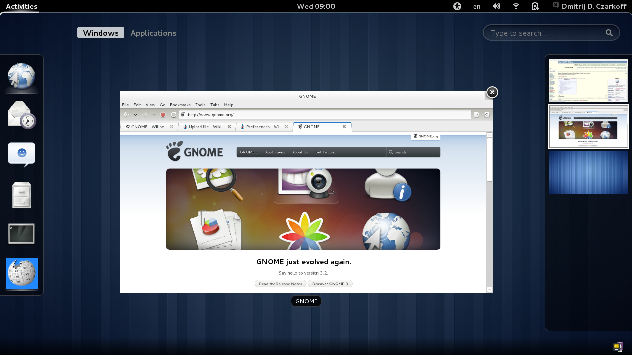 GNOME 3.2 Shell featuring Epiphany web browser